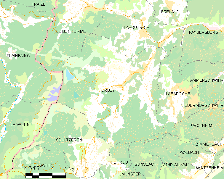 Map of French municipality